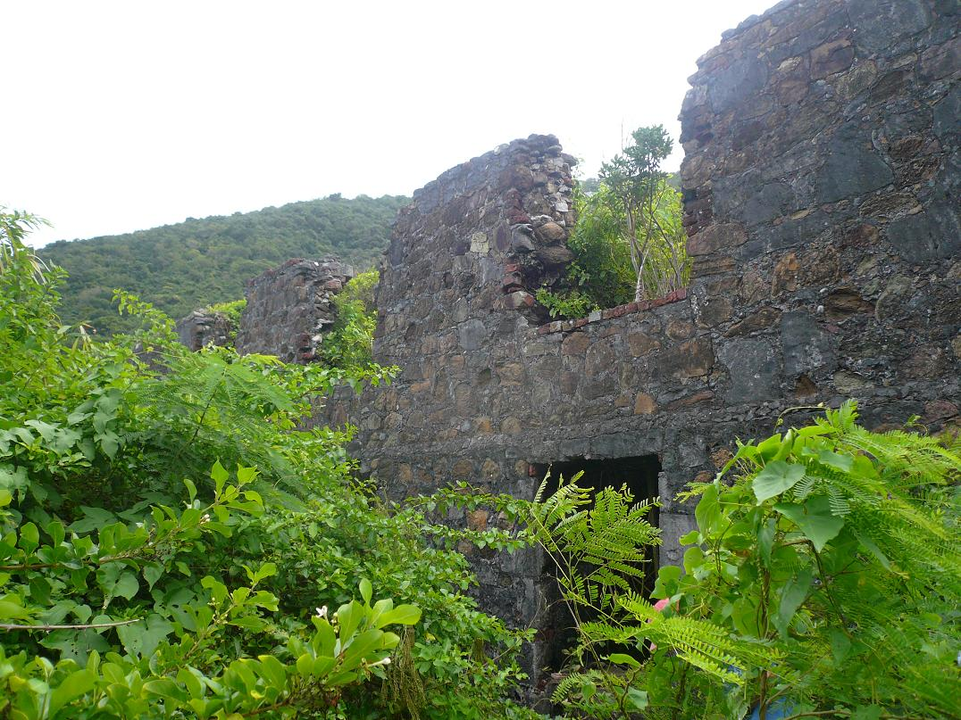 Photo of ruin at Larmer Bay, Tortola